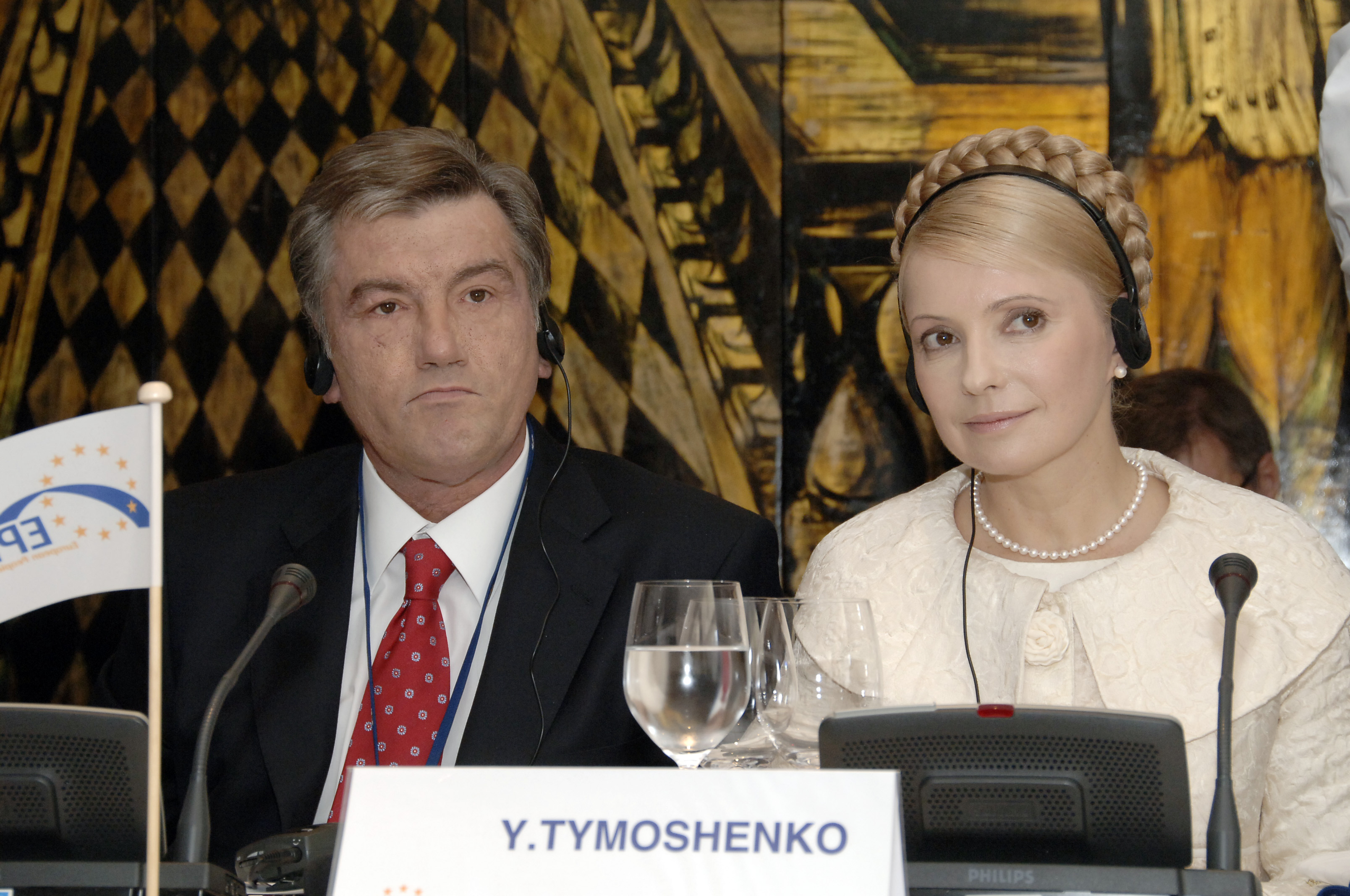 EPP Summit Lisbone 18 October 2007